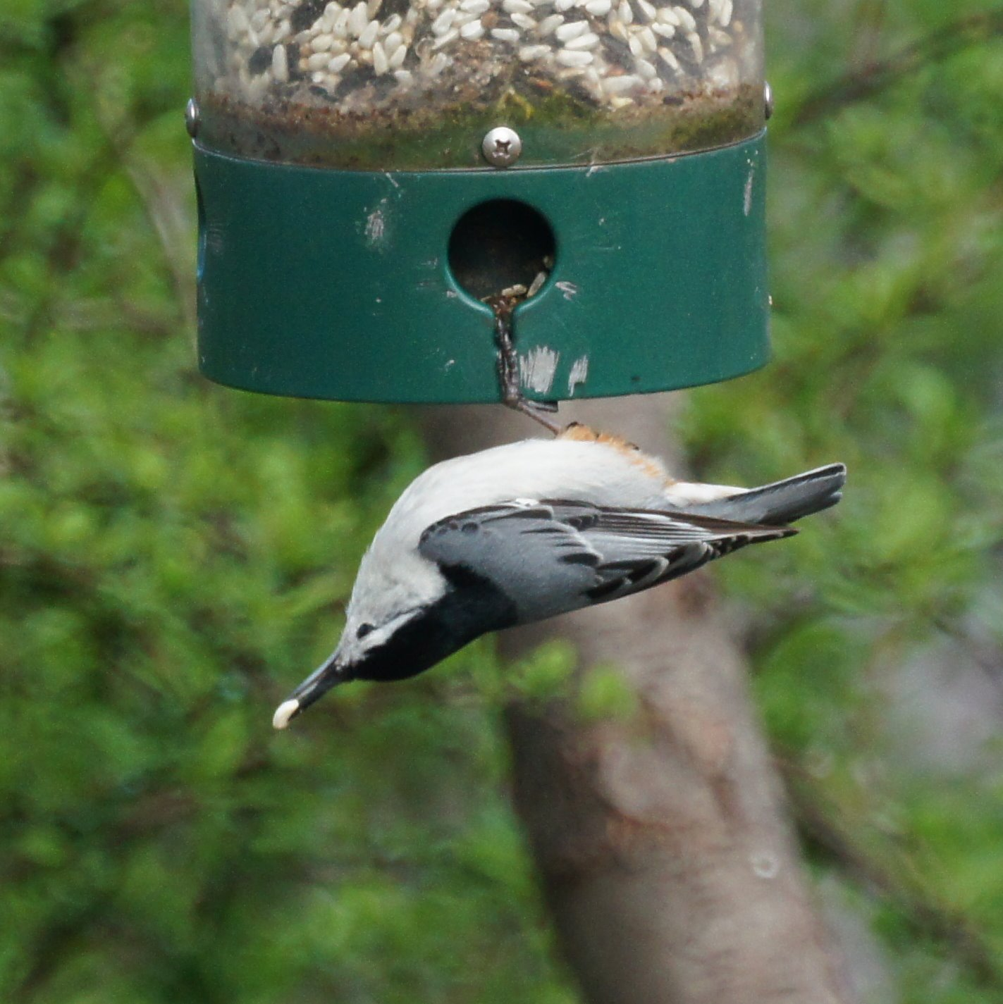 White-breasted nuthatch